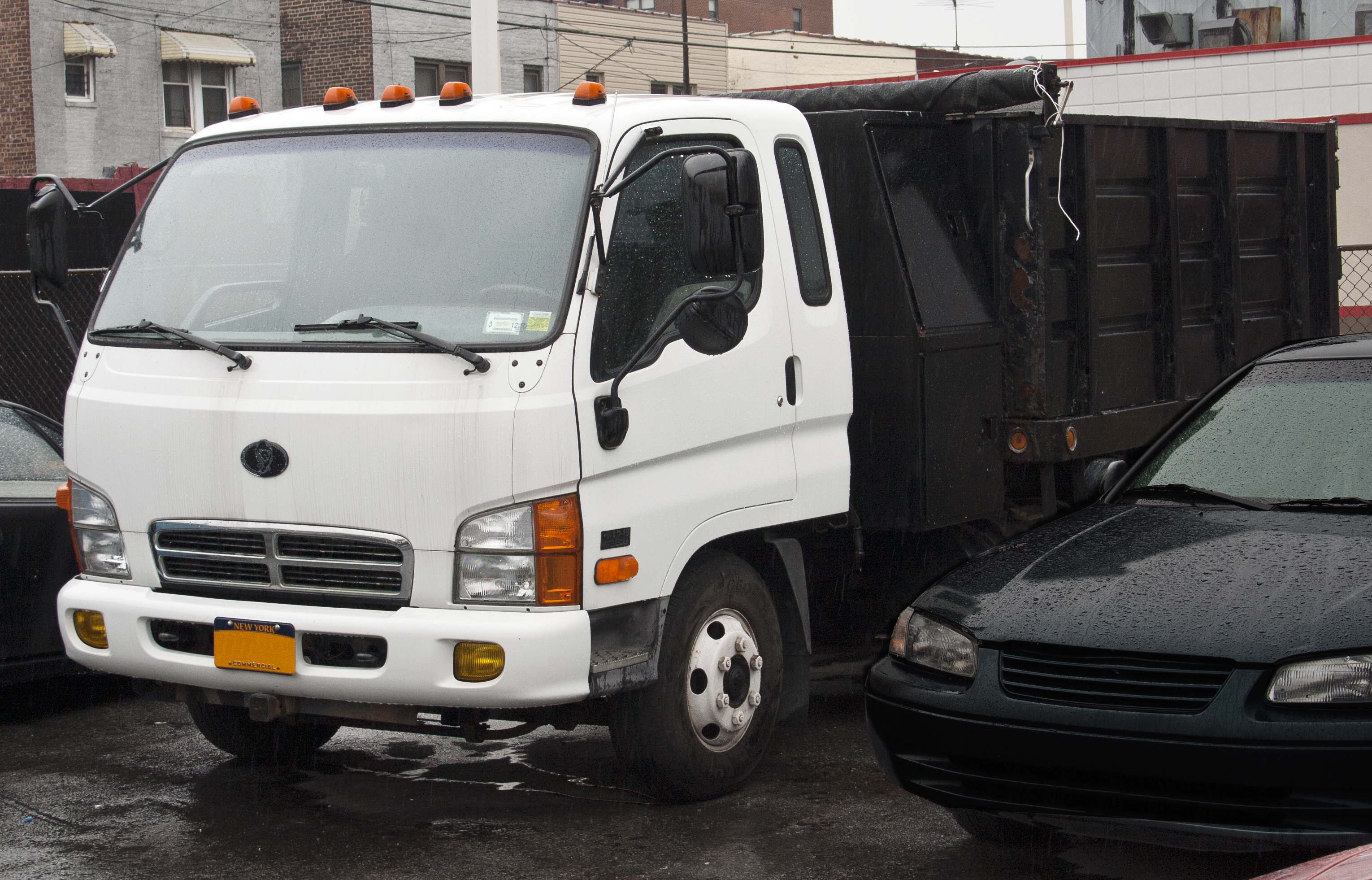 2000 Bering LD15, with a Detroit Diesel engine. This is a relabelled Hyundai truck, sold by Bering in the United states between 1999 and 2001.